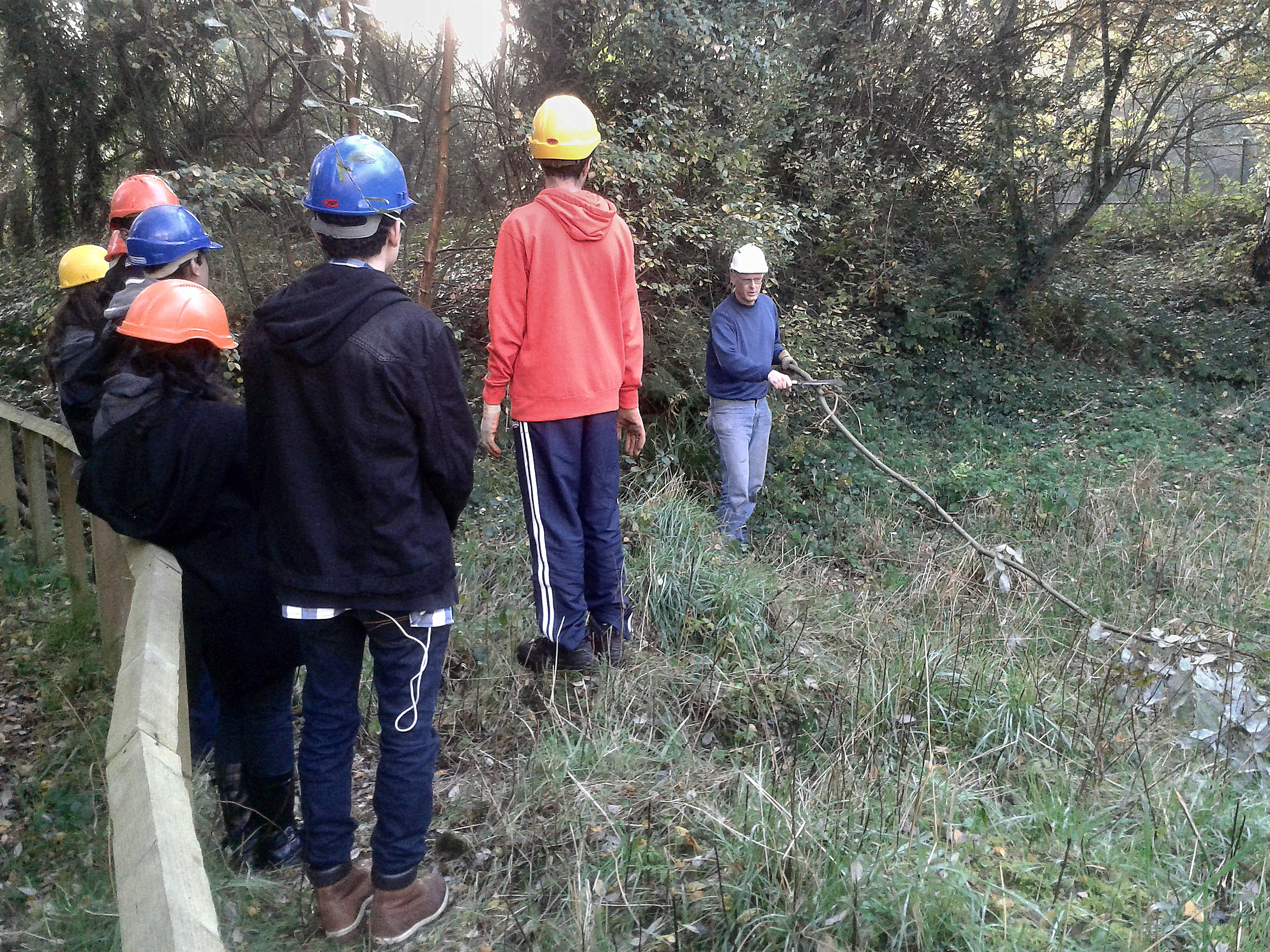 A London Wildlife Trust Volunteer Warden instructing a Headstart group in Gunnersbury Triangle